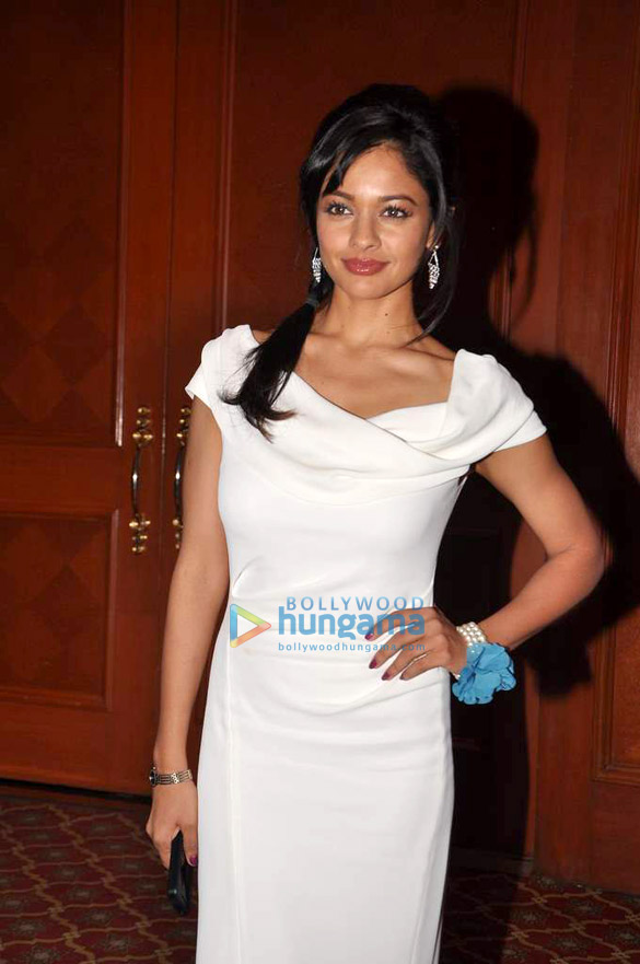 Pooja Kumar at Promotions of 'Vishwaroop' with Videocon